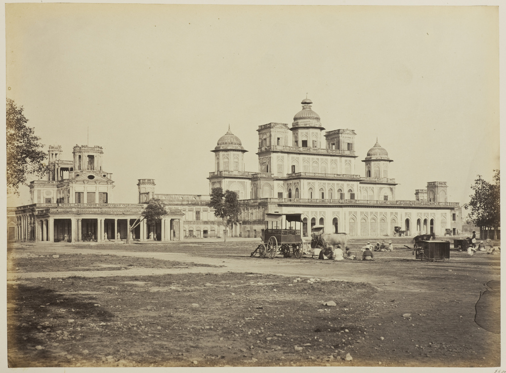 Bara Chattar Manzil and Farhat Bakhsh in Lucknow - view from the south